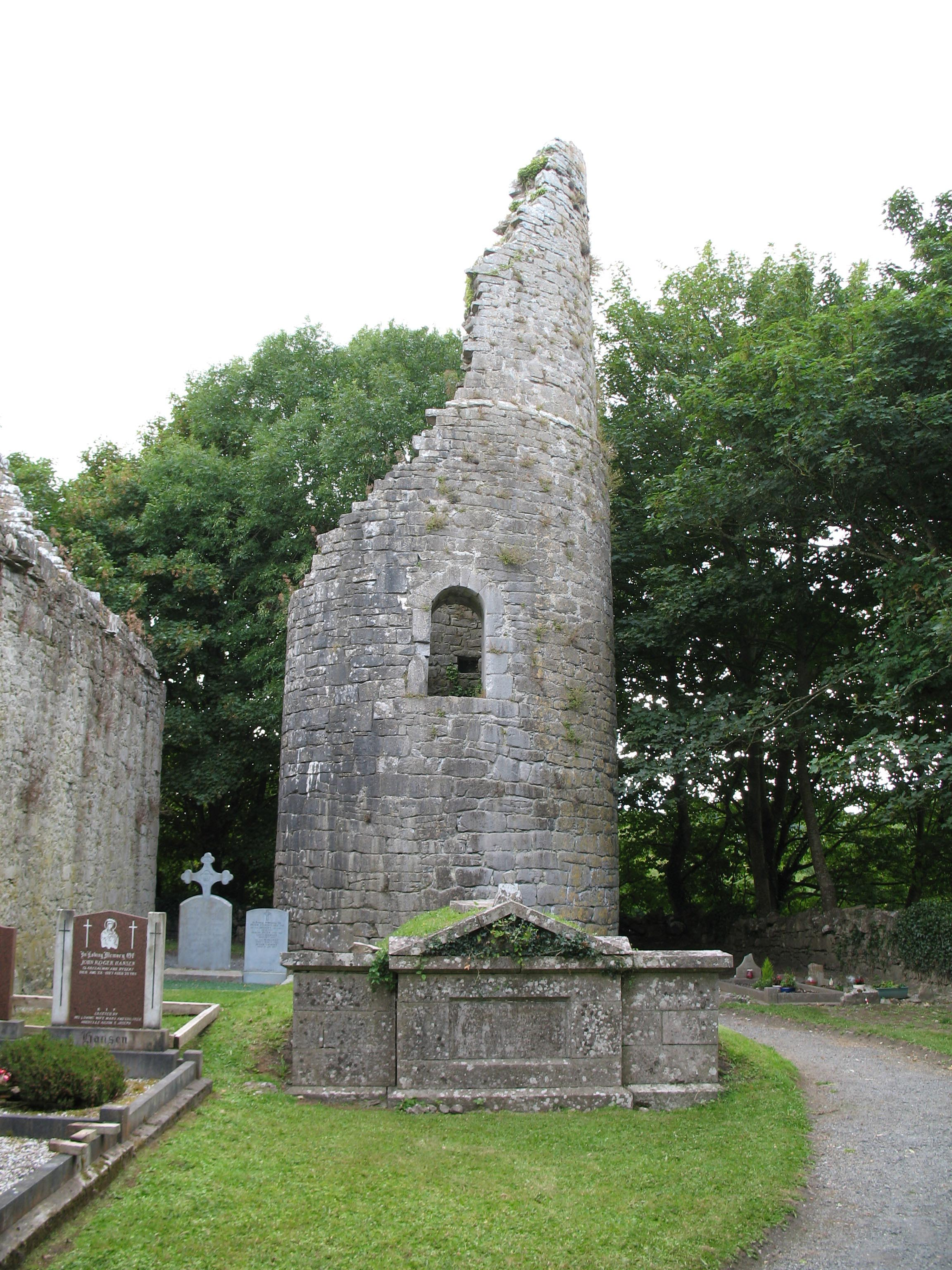 Photo by William Bennett